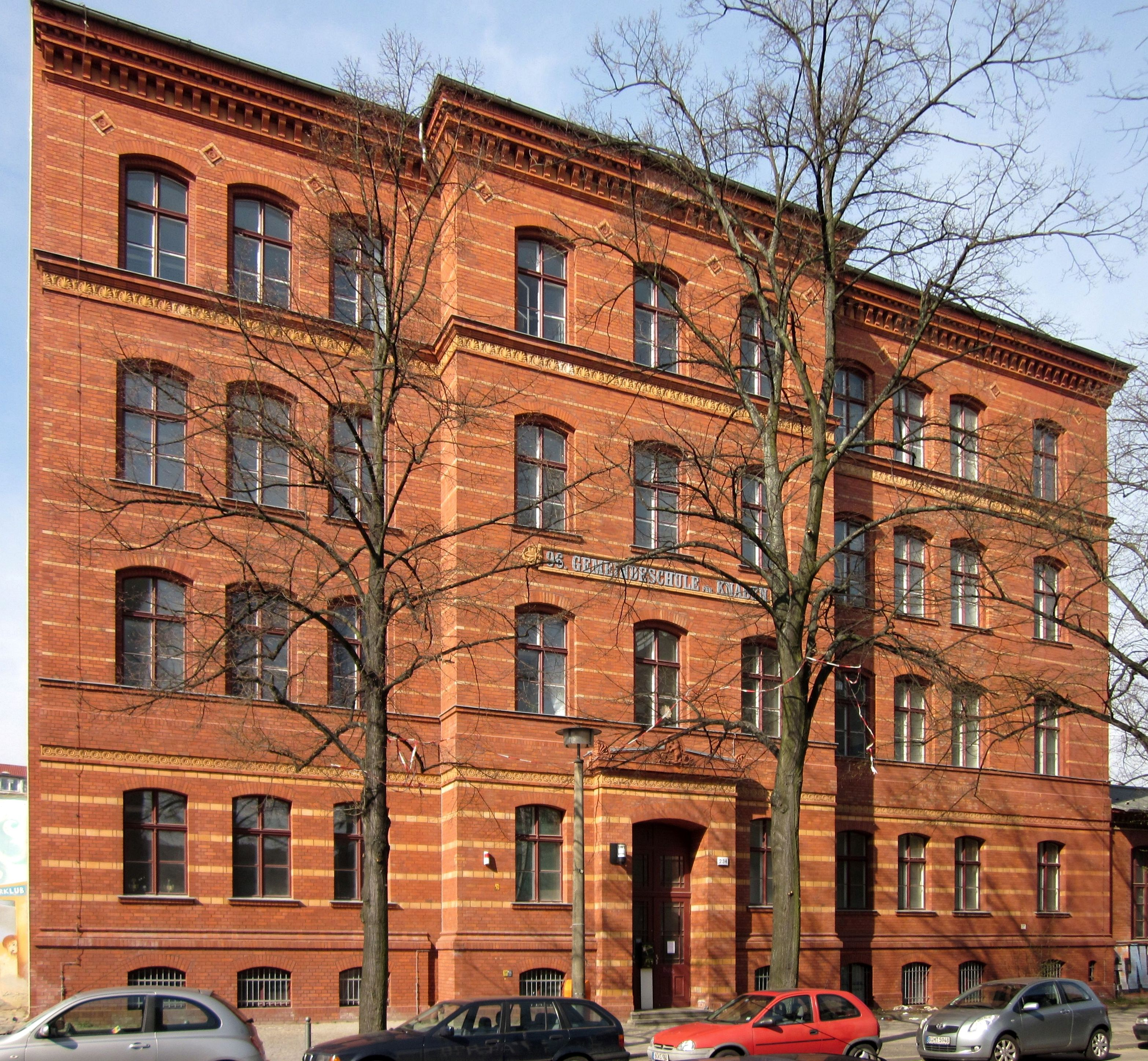 Front building of the former 89th and 96th municipal school of Berlin at Schwedter Straße No. 232-234 in Berlin-Mitte. The complex consisting of two four-story classroom buildings and a gym wing was built from 1876 to 1877 to a design by Hermann Blankenstein. It has been dedicated as a historic landmark.